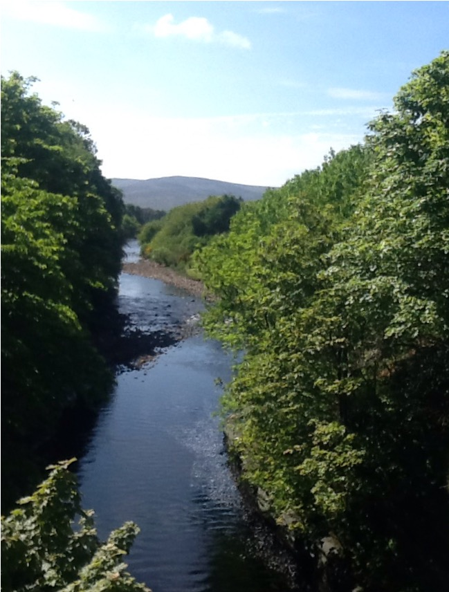 Brora River from Brora Bridge, Sutherlands, Scotland